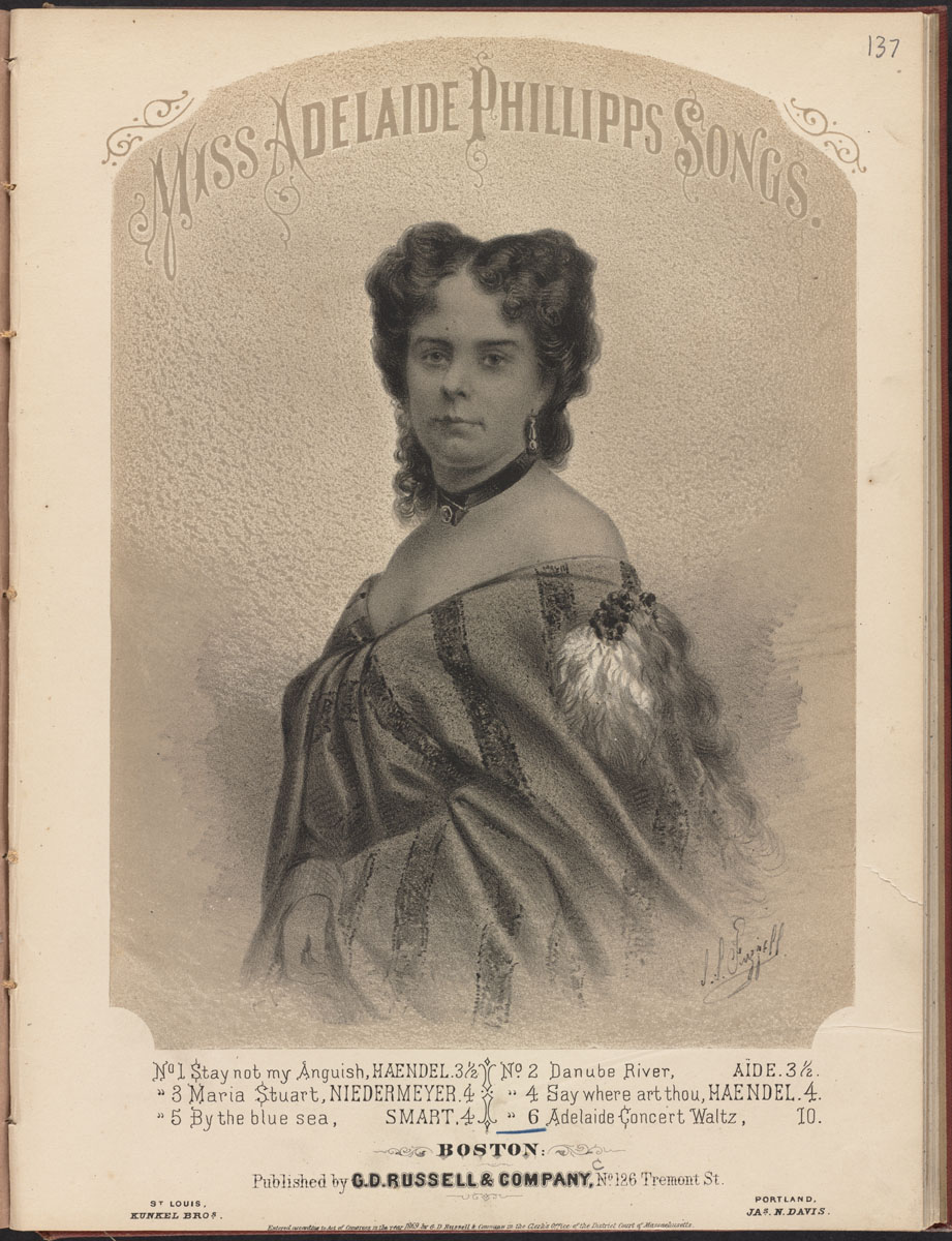 Held by Boston Public Library Accession No.: 07_07_000005 Call Number: no. 19 of 8050a.730.39 Lithographer: New England Lithograph Co. Title of Lithograph: Miss Adelaide Phillips Composer: Strauchaufr, H. Title of Composition: Adelaide Concert Waltz Place of Publication: Boston Publisher: G. D. Russell & Company Date: 1869 BPL Department: Music